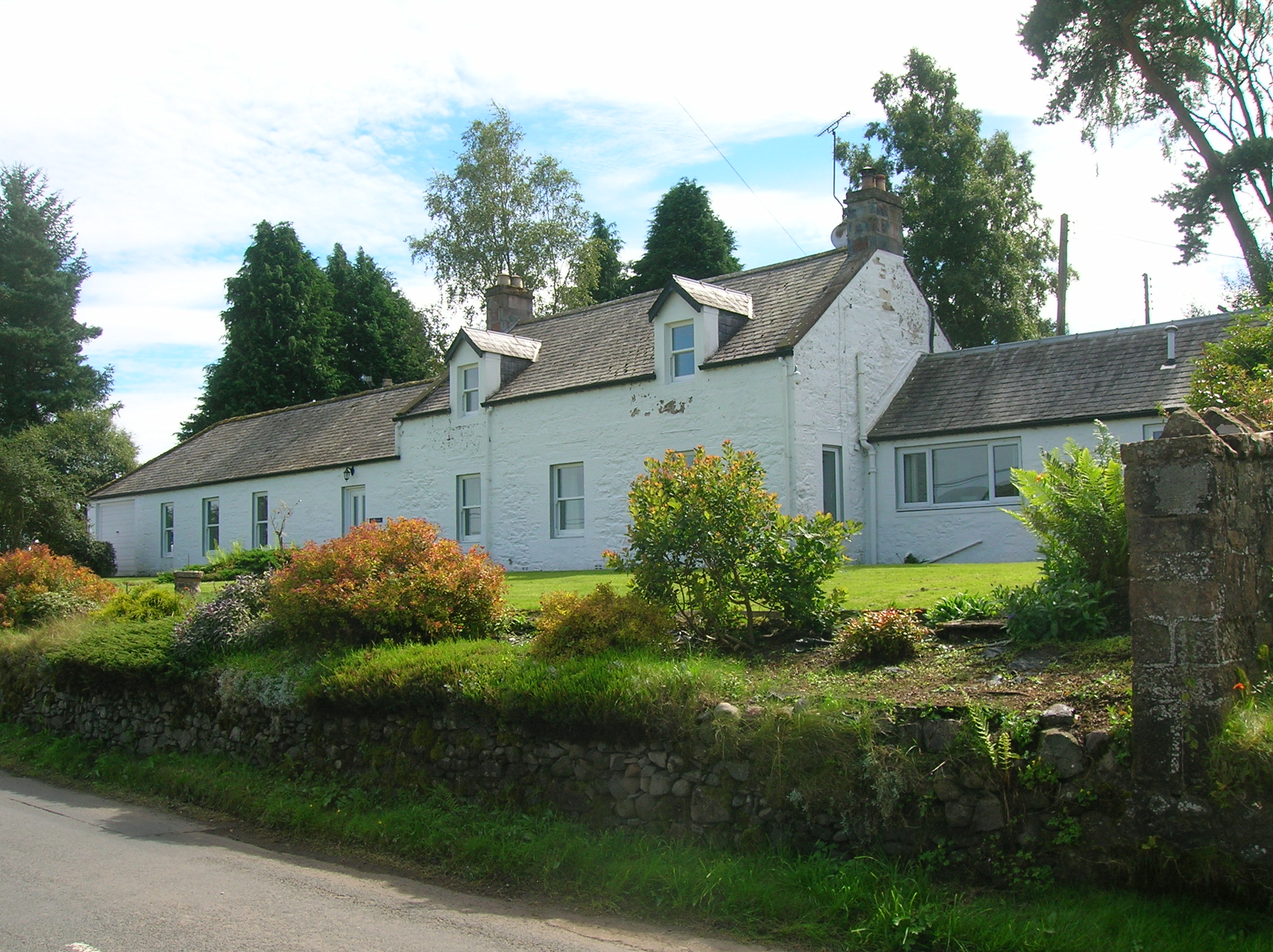 Grange View (The Grange), Friars' Carse, Auldgirth, Dumfries & Galloway, Scotland